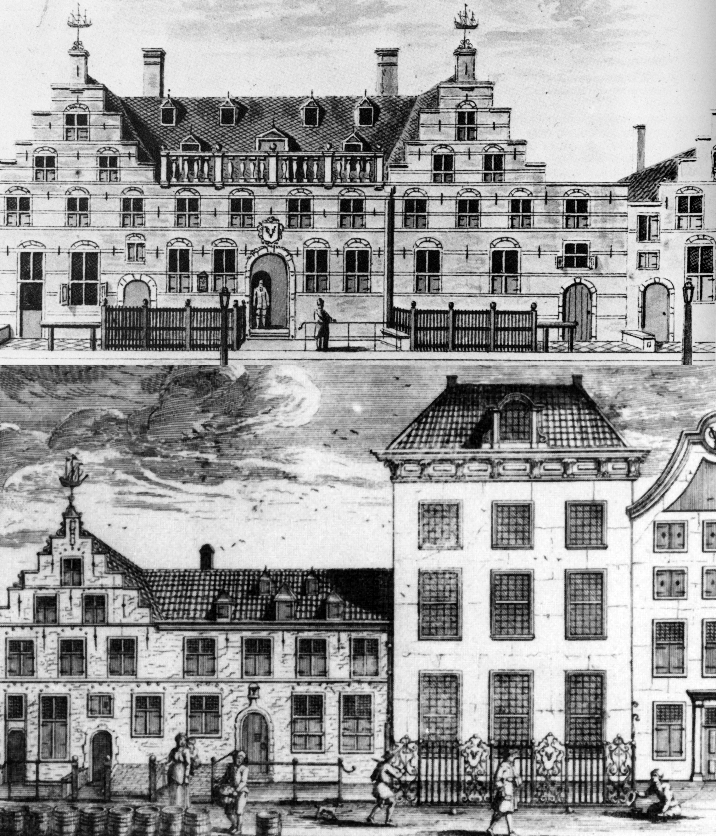 Oostindisch Huis of the VOC Chamber of Delft before and after the reconstruction of 1722